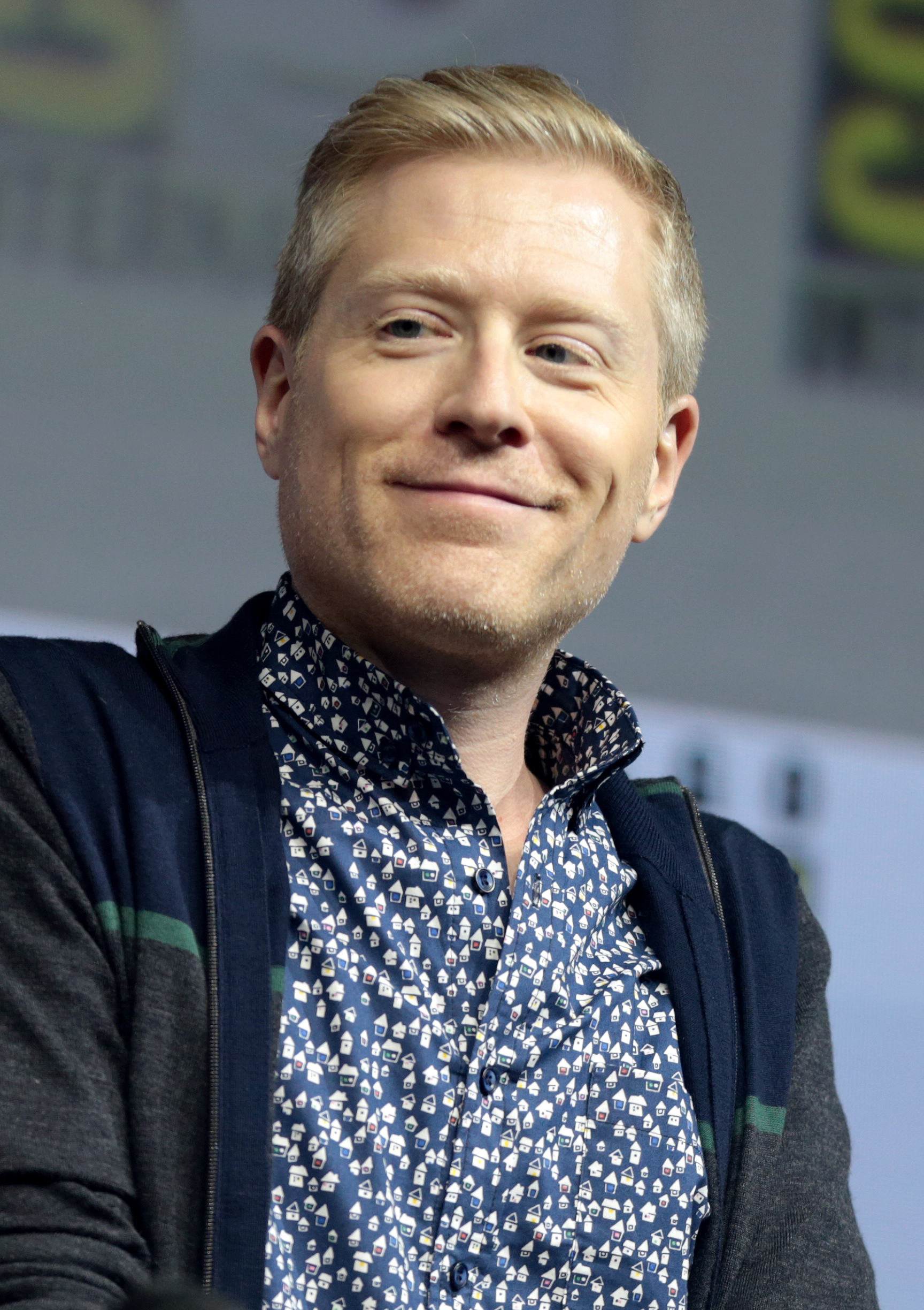 Anthony Rapp speaking at the 2018 San Diego Comic-Con International in San Diego, California.